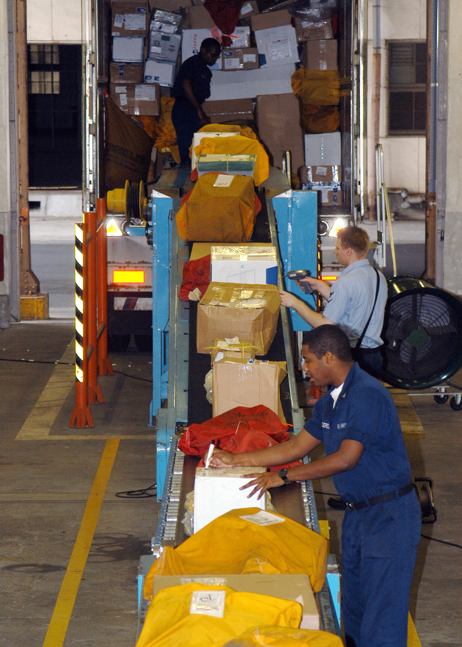 Yokohama, Japan (Aug. 28, 2006) - Postal clerks assigned to Fleet Mail Center, Yokohama, unload a truck of incoming mail so that it can be inspected, processed and distributed. Fleet Mail Center Yokohama is the hub for U.S. mail arriving and being distributed within Japan. U.S. Navy photo by Mass Communication Specialist 1st Class Paul J. Phelps (RELEASED)